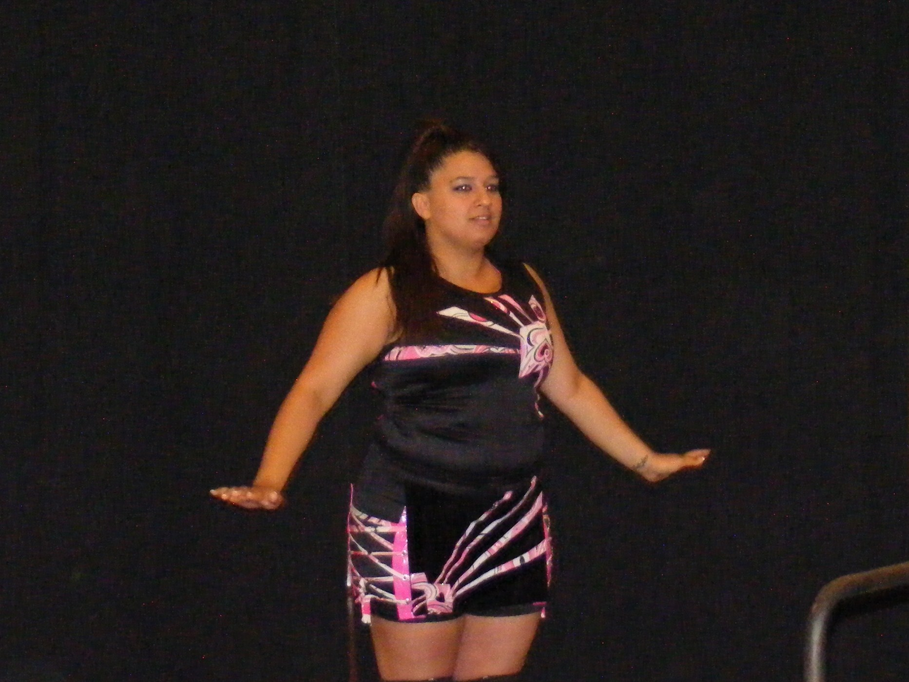 Professional wrestler Ariel (real name Ana Rocha) at an NWA-LS show in Manchester, NH in June 2010.